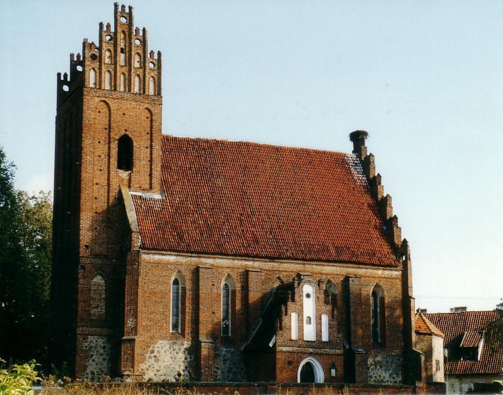 Church in Łabędnik (Poland), 1999.